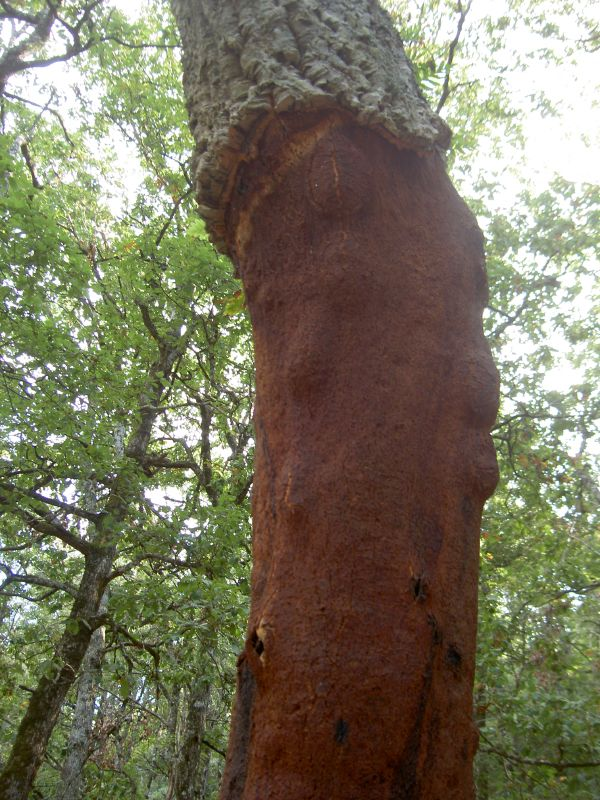 Cork Oak in Aïn Draham, Northern Tunisia.